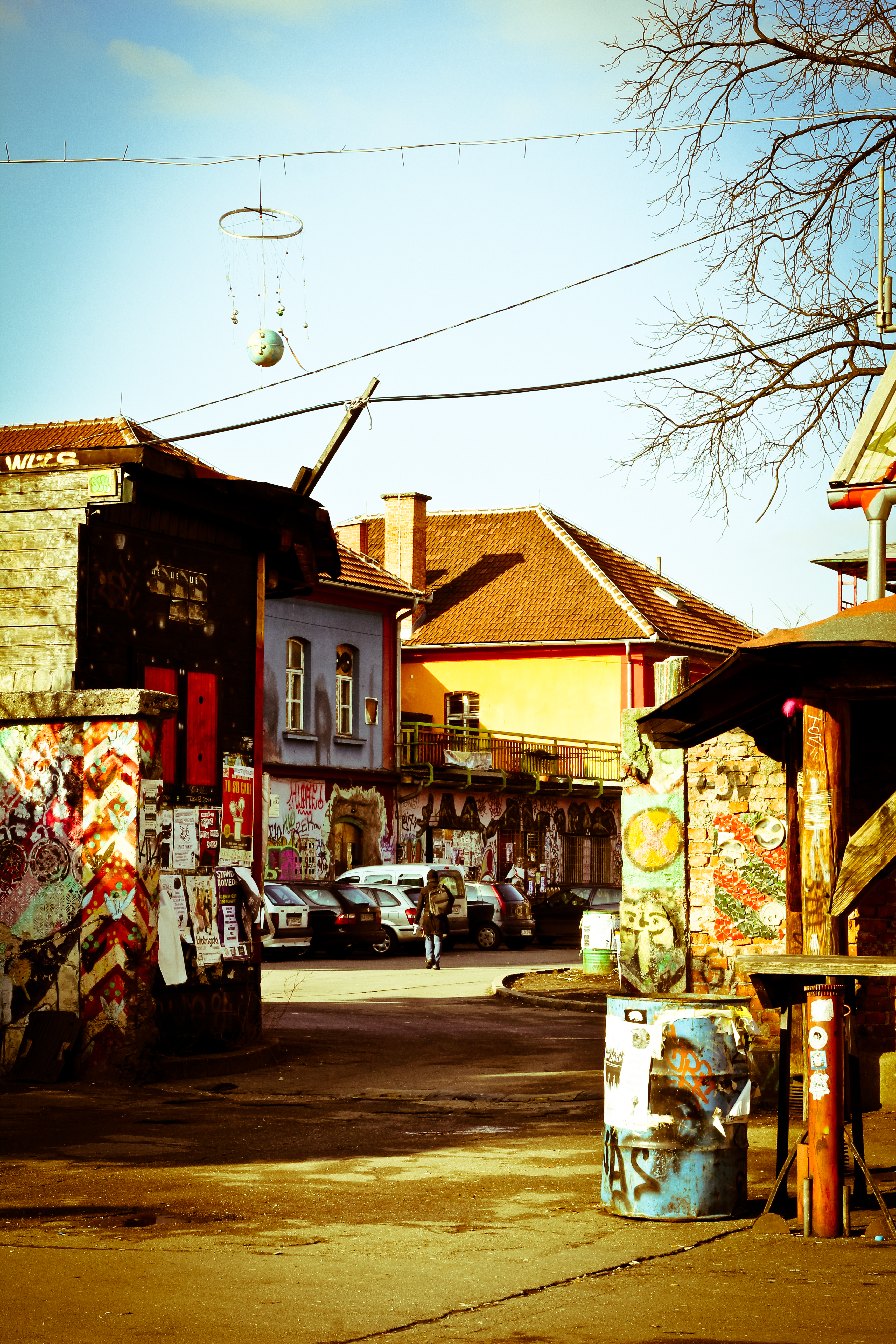 metelkova